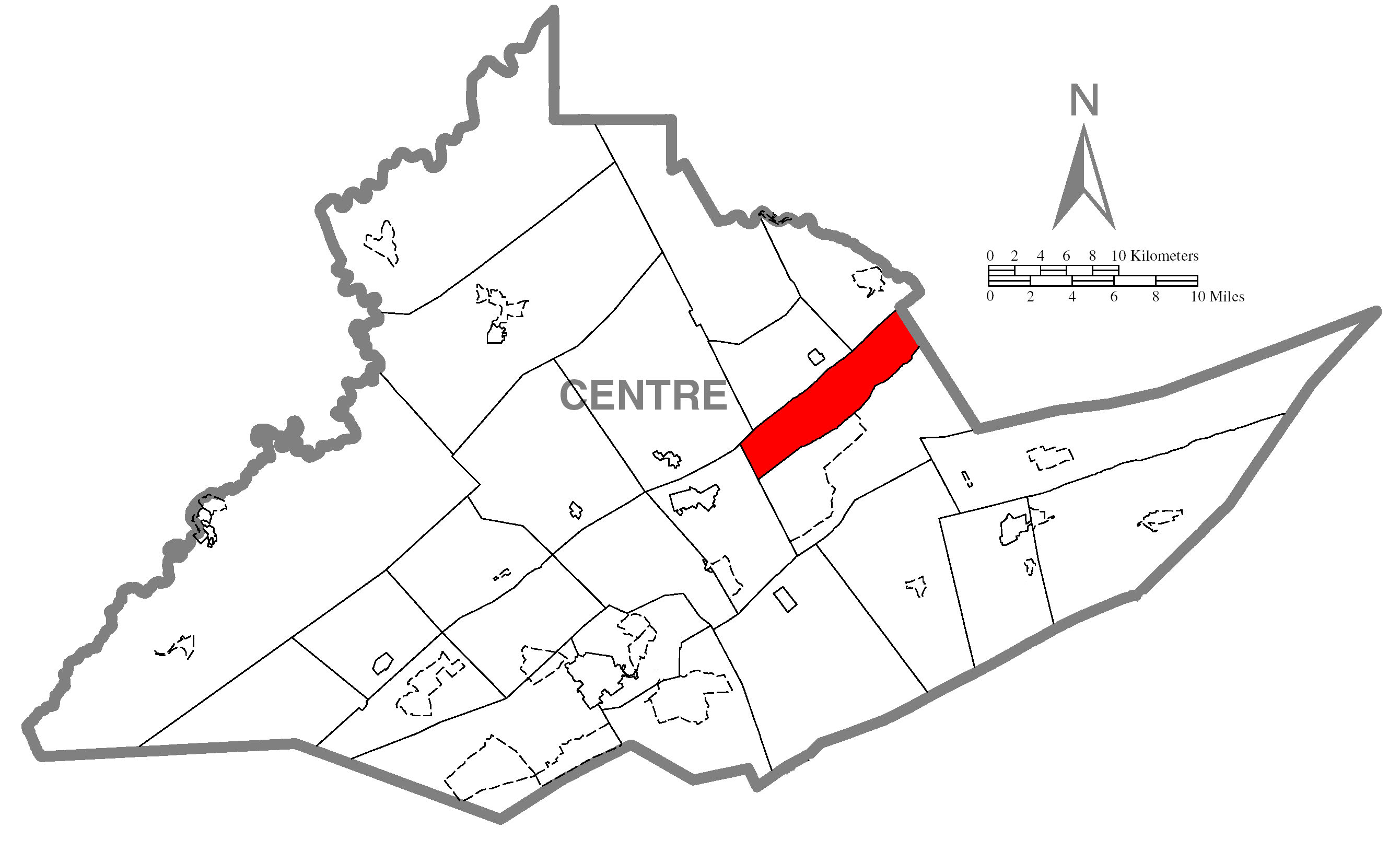 A map of Centre County showing Marion Township, Pennsylvania (alternate) highlighted on the map.